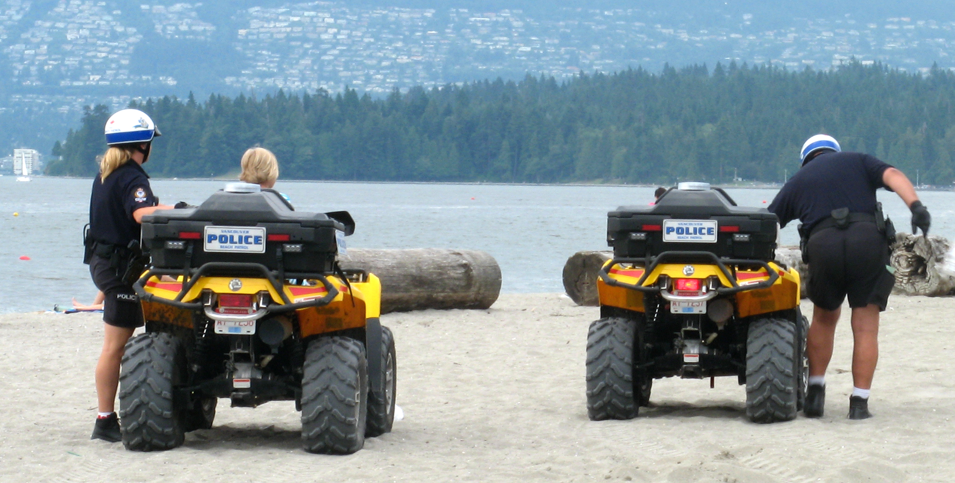 Vancouver police beach patrol at Kits beach